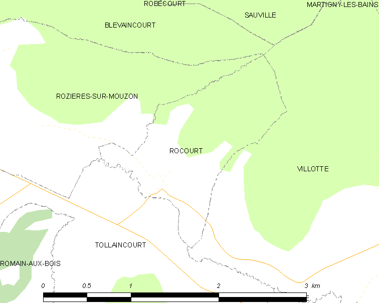 Map of French municipality Rocourt